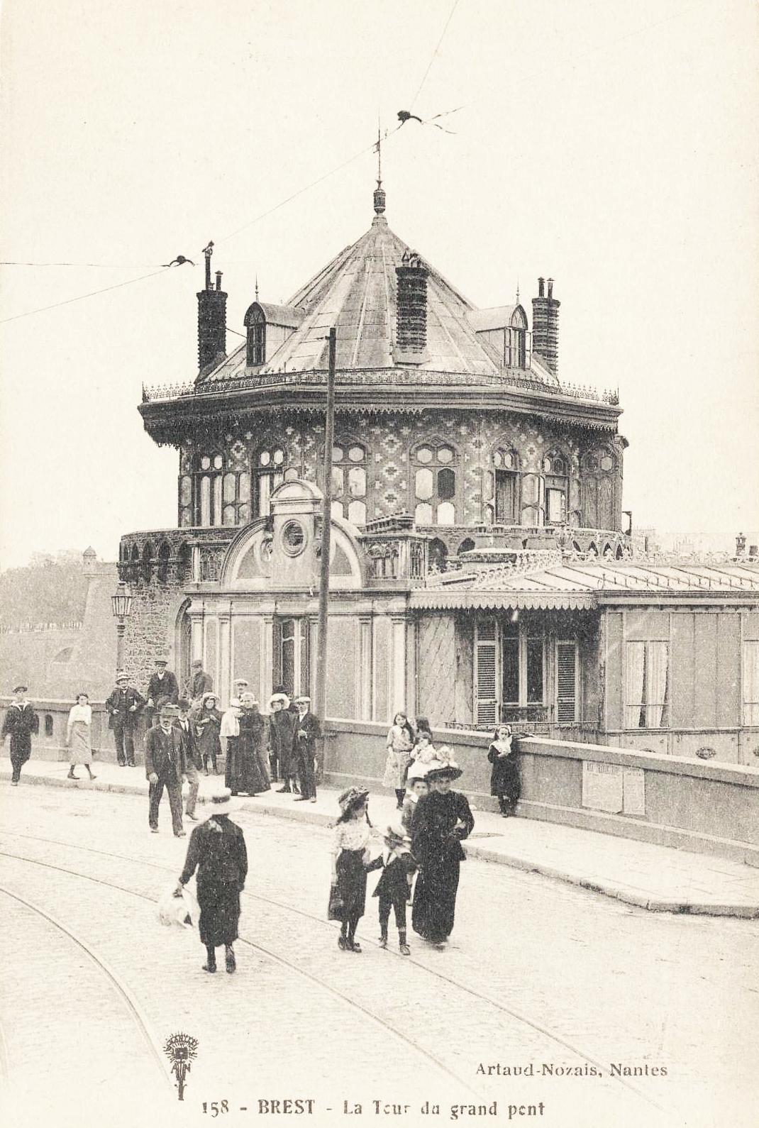 Postal Card of The Tanguy Tower in Brest (first years of XX century), see from the Pont National